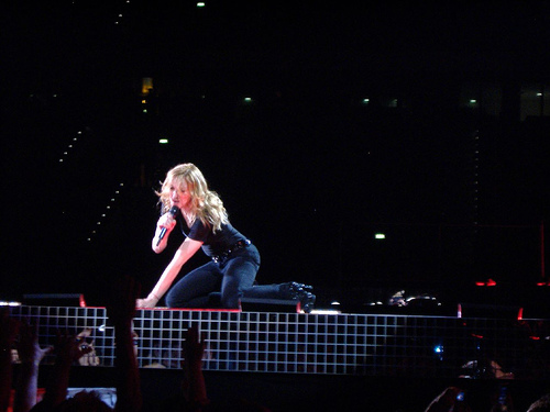 The Confessions Tour in Duesseldorf, Germany, August 2006.